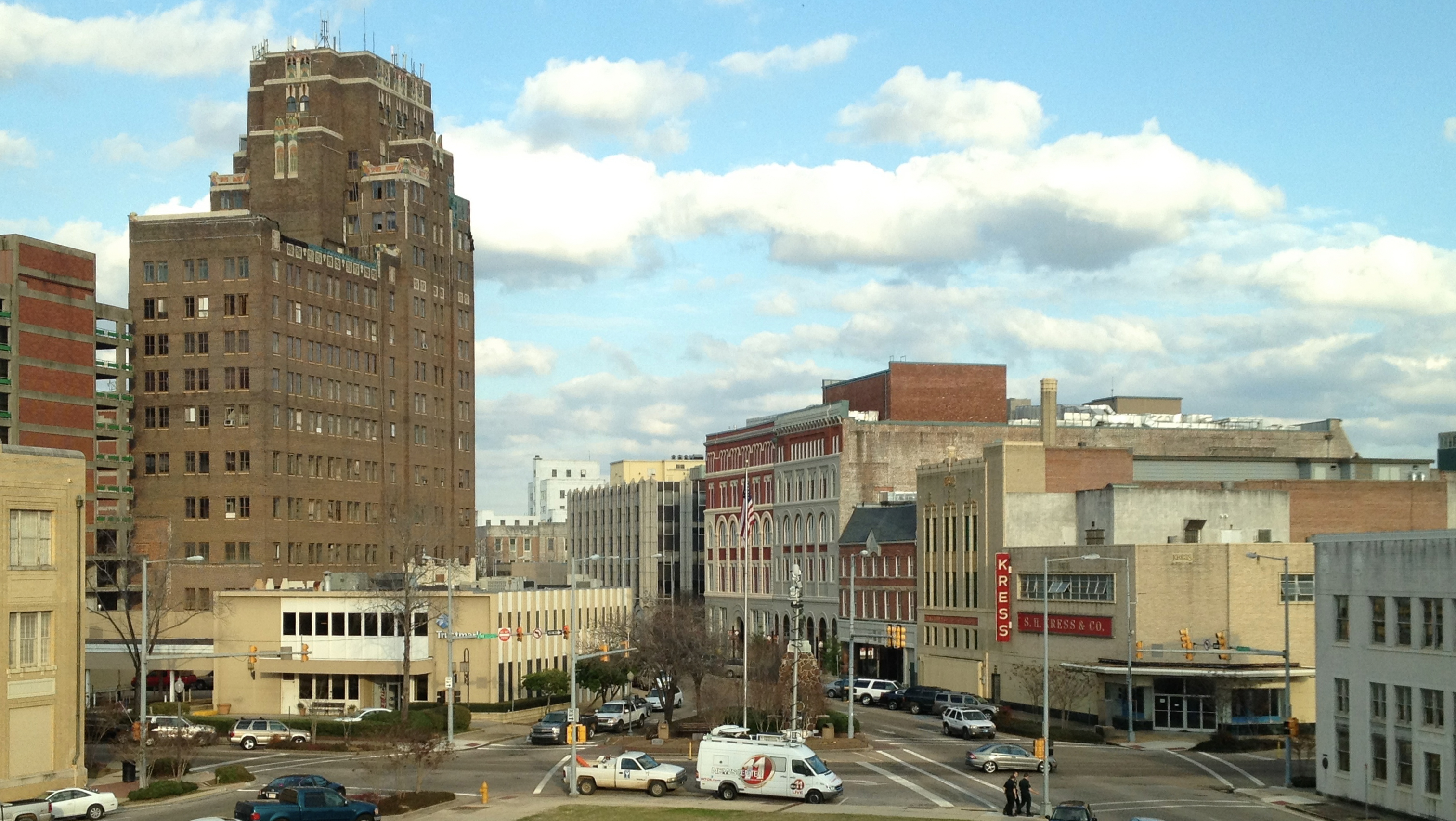 A vista of downtown Meridian, Mississippi from the third floor of Meridian City Hall. Pictured buildings include the Threefoot, Riley Center, Kress Building, and Doughboy Monument.